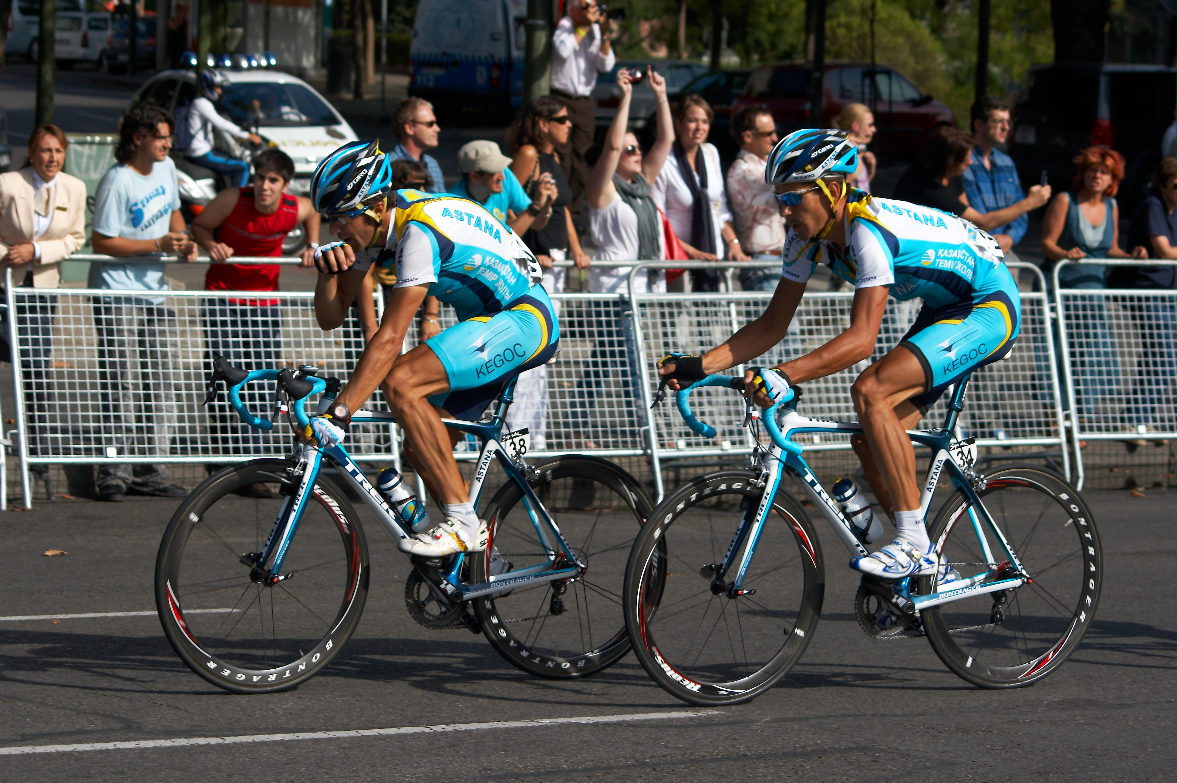 RUBIERA VIGIL José Luis (28/ESP) and MURAVYEV Dmitriy (34/KAZ), 2008 Vuelta a España, Madrid, Spain.